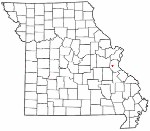 Modified from a map on Wikipedia.